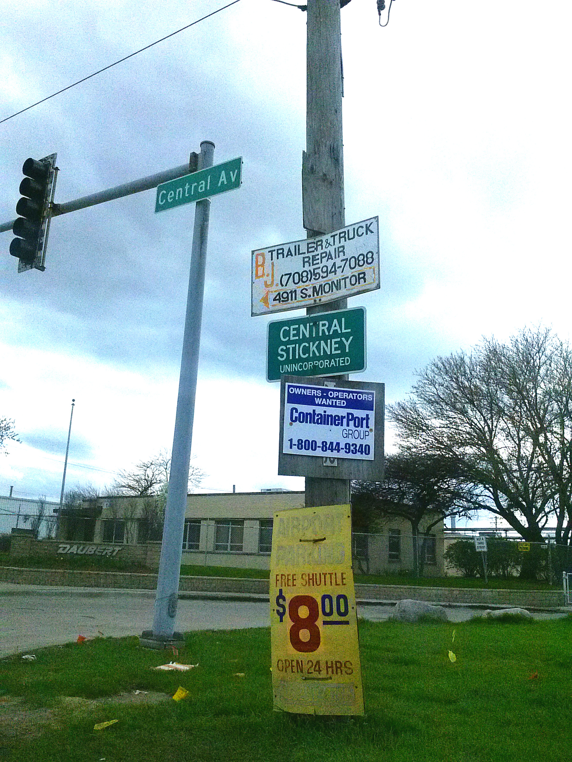 A signpost at Central Avenue and I-55, declaring "city limits" of Central Stickney, Illinois, just southwest of Chicago, Central Stickney is an unincorporated area in Stickney Township, Cook County, Illinois.